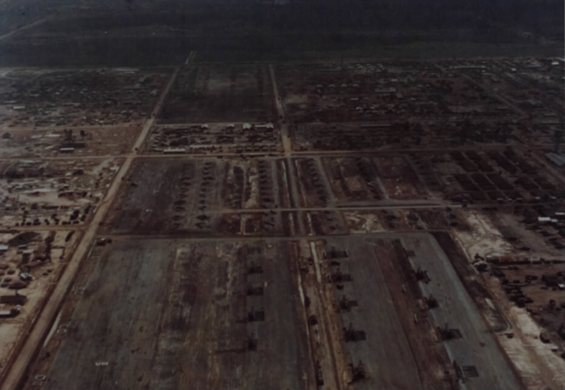 Aerial view of the heliport constructed by the 86th Engineer Battalion at Long Thanh.